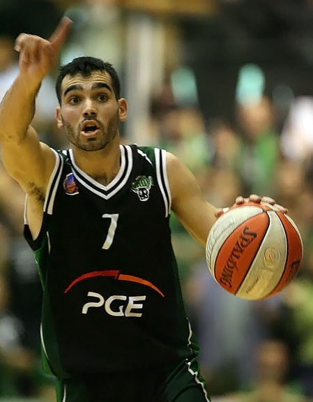 Andres Rodriguez (PGE Turów Zgorzelec). PLK finals, game 2 (may 2008) - PGE Turów Zgorzelec - Prokom Trefl Sopot.